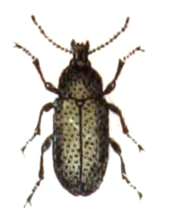 Mycterus curculioides, from Calwer's Käferbuch, Table 48, Picture 9. Taxonomy was updated to 2008, using mostly the sites Fauna Europaea and BioLib. Please contact Sarefo if the determination is wrong!